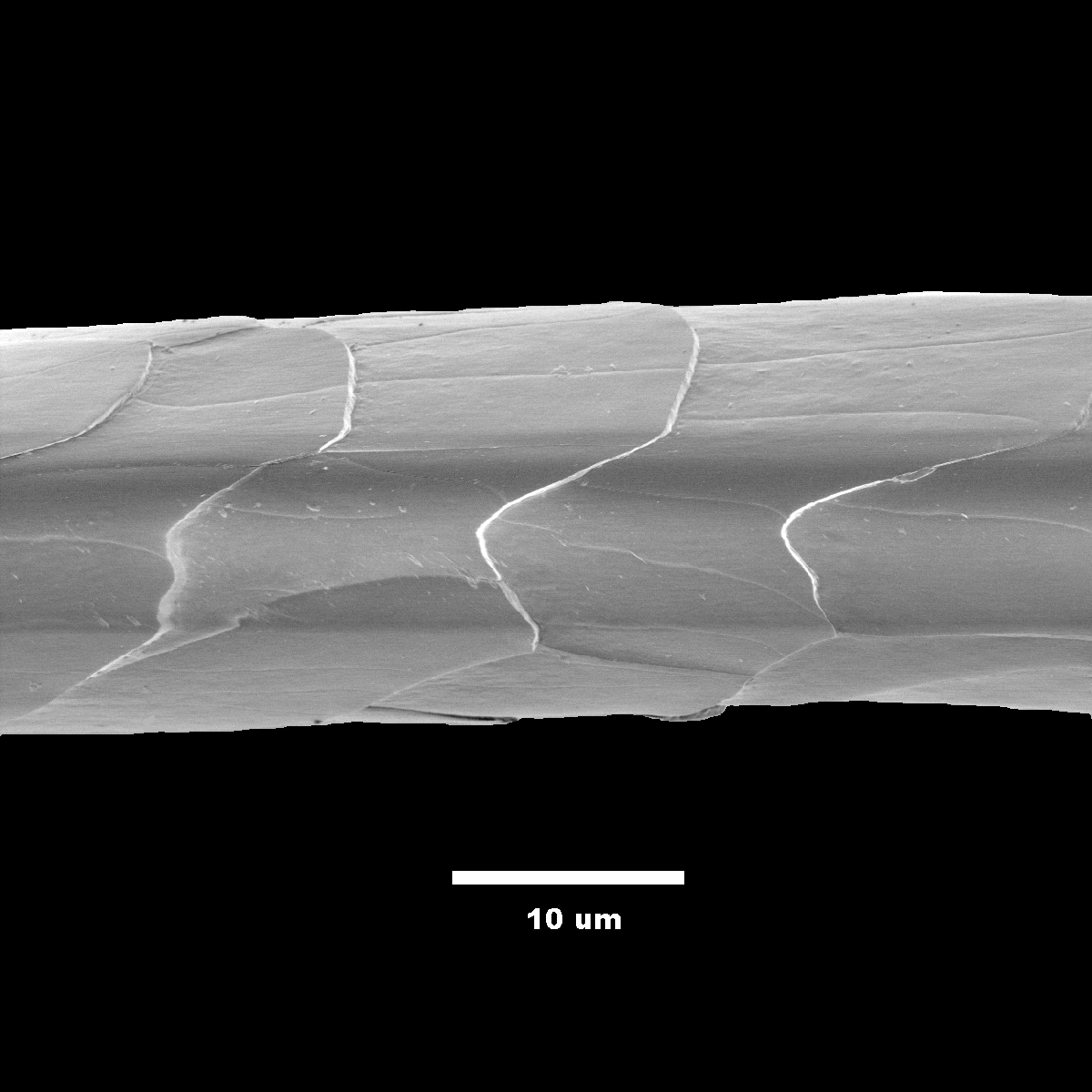 Scanning electron microscope image of a hair from a cashmere goat